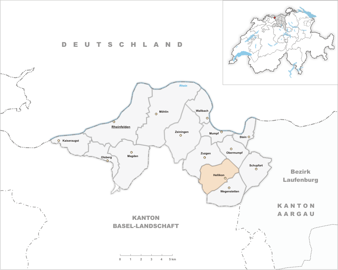 Municipality Hellikon